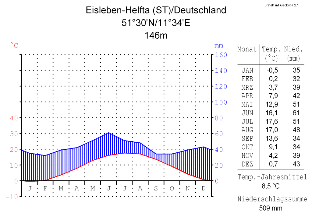 climate chart in the format by Walter and Lieth, metric, °Celsisus and millimeters, made with Geoklima 2.1